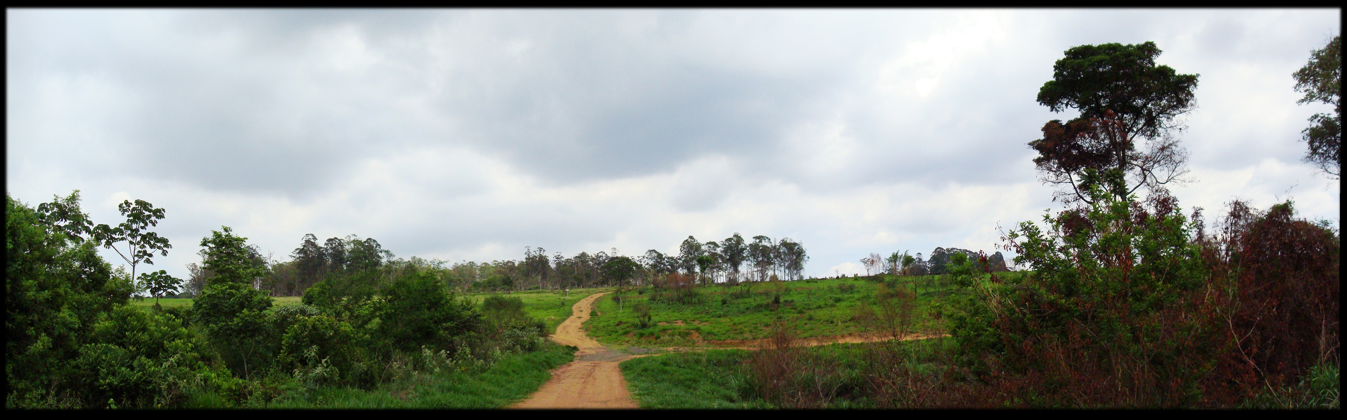 Outskirts of São Carlos, SP, Brazil. Photos taken with Sony DSC-W80, combined with Hugin, and processed with gimp.